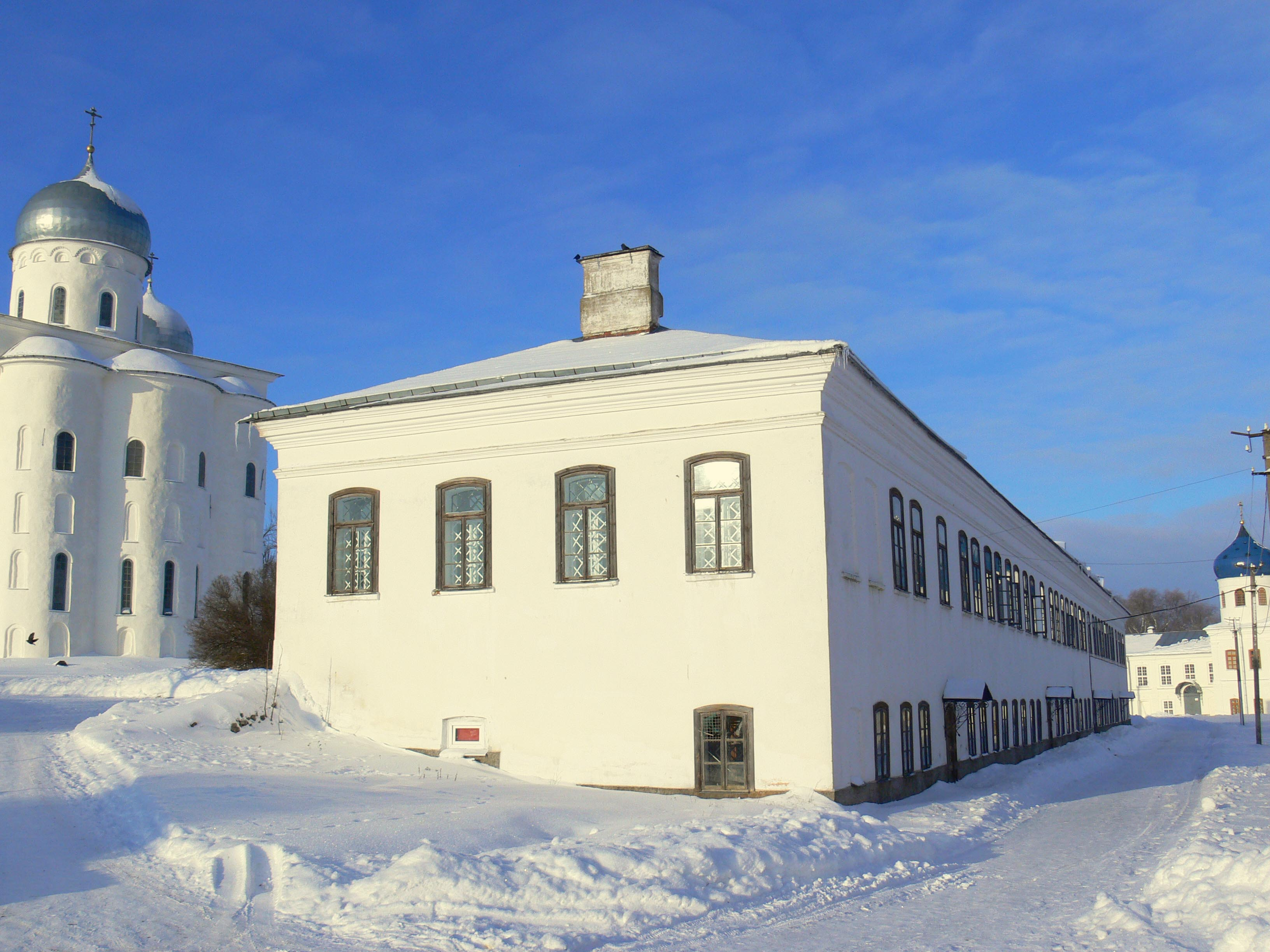 St. Georges monastery in Veliky Novgorod